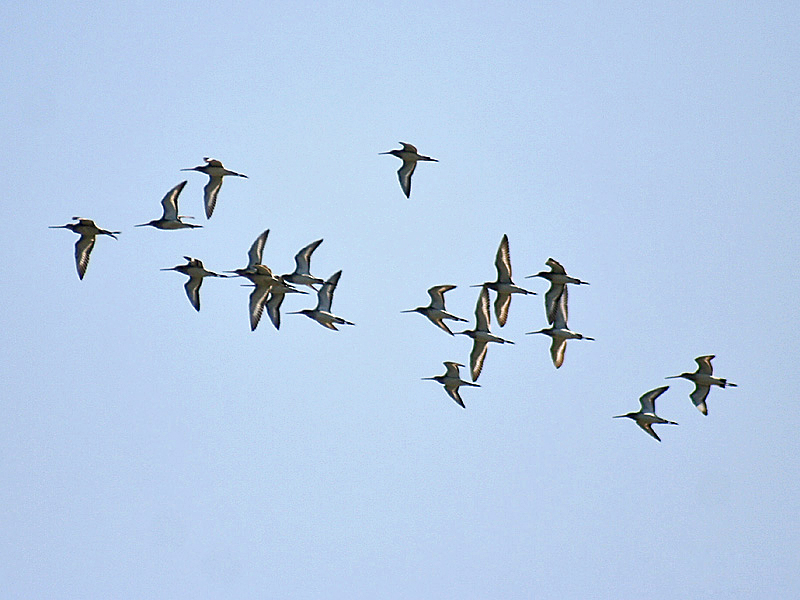 Black-tailed Goodwit Limosa limosa at Chilika, Orissa, India.